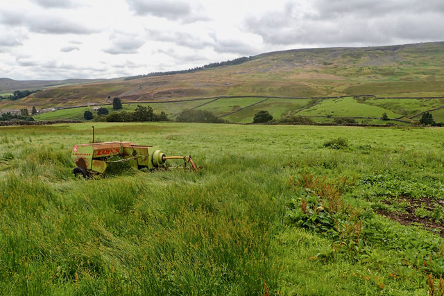 Field near High Eskeleth